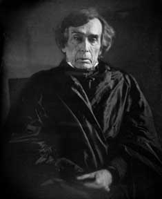 Chief Justice Roger B. Taney Category:United States history images